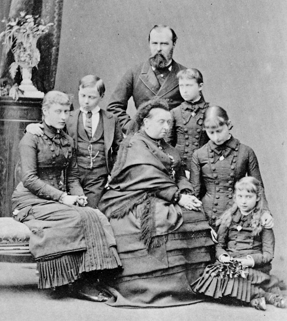 The Hessian family with Queen Victoria. (l-r): Princess Victoria, Hereditary Grand Duke Ernest Louis, Grand Duke Louis IV, Queen Victoria, seated, hands on her lap, Princess Irene, Princess Elizabeth and Princess Alix. The photo was taken shortly after death of their mother in December 1878.